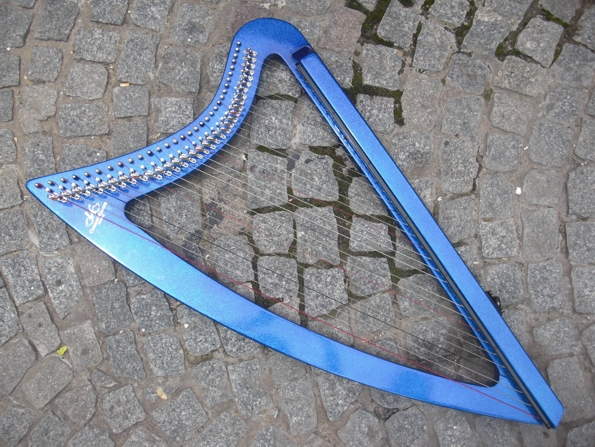 Electric Harp, (Foto from de collection of Athy, The Electric Harper).